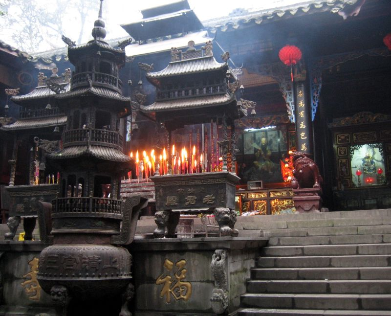 Altar, with incense burners and candles, before the Shangqing Temple on Qingchengshan in Chengdu, Sichuan.